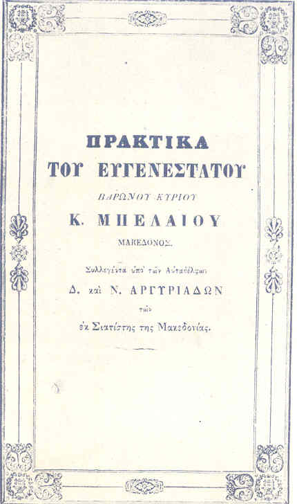 cover of book: Practically K.Bellios